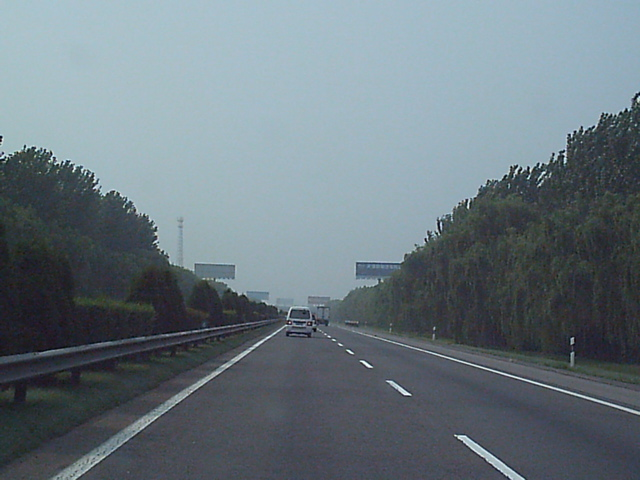 Jingjintang Expressway - Tianjin segment.